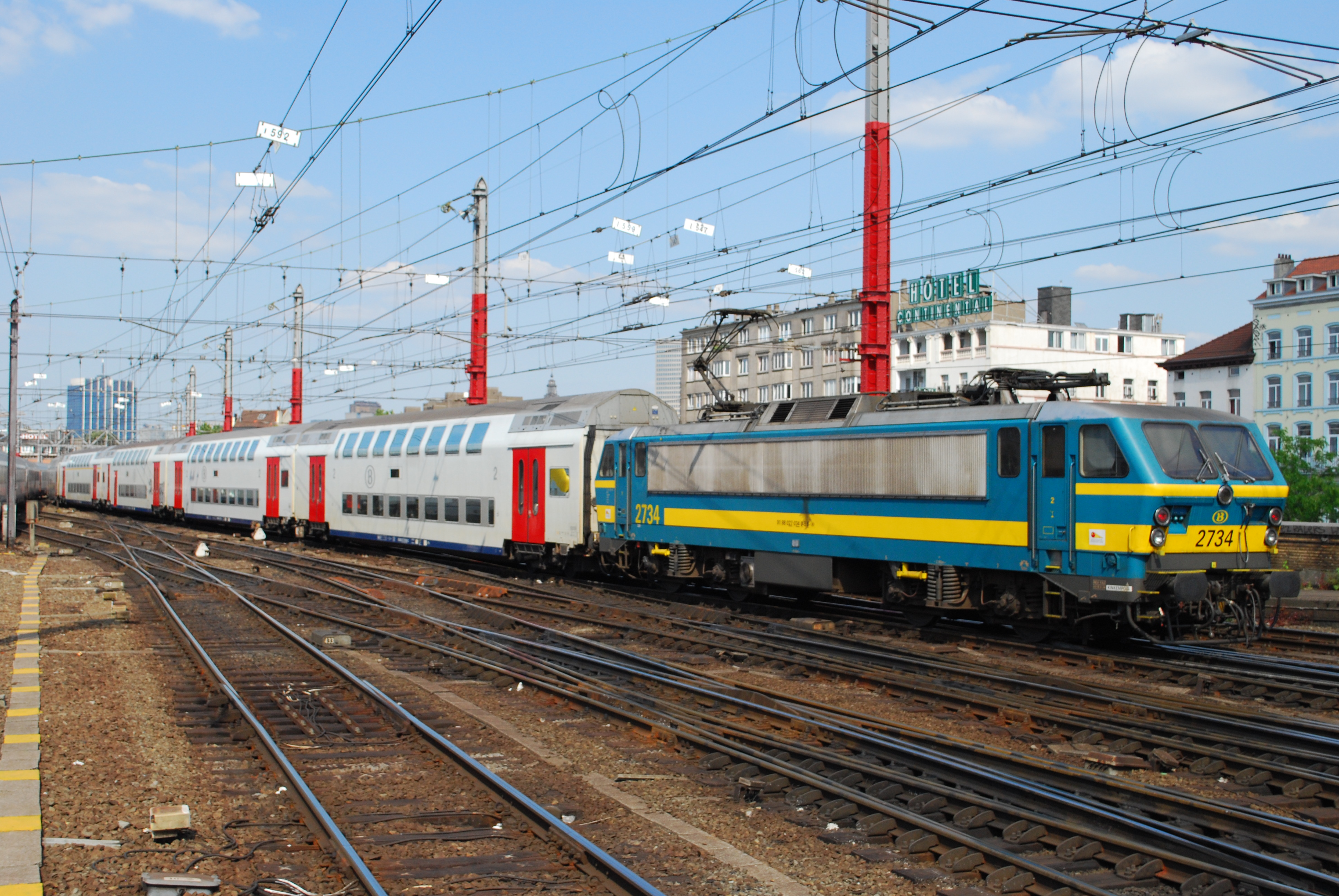 SNCB/NMBS La Brugeoise et Nivelles (BN) Class 27, 3,000v dc, 5,650 hp Bo-Bo No.2734 in standard blue & yellow stripe livery entering Brussels Midi on a push-pull service of double deck M6 outer suburban stock, 6/11. The Class 27's were the first Belgian locos to be fitted with rheostatic brakes and the first and most powerful of the Class 11,12, 21 & 27 family built in 1981-84, which totals 144.